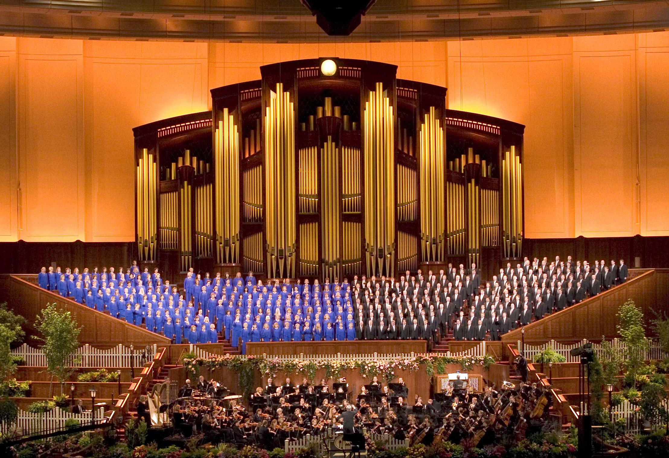 The Mormon Tabernacle Choir and Orchestra at Temple Square perform on 75th anniversary of Music and the Spoken Word, a weekly 30-minute radio and television program sponsored by The Church of Jesus Christ of Latter-day Saints.